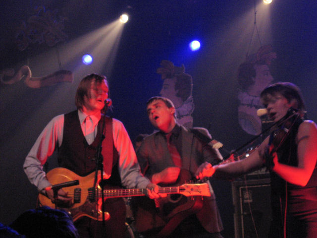 William Butler (center), member of Arcade Fire